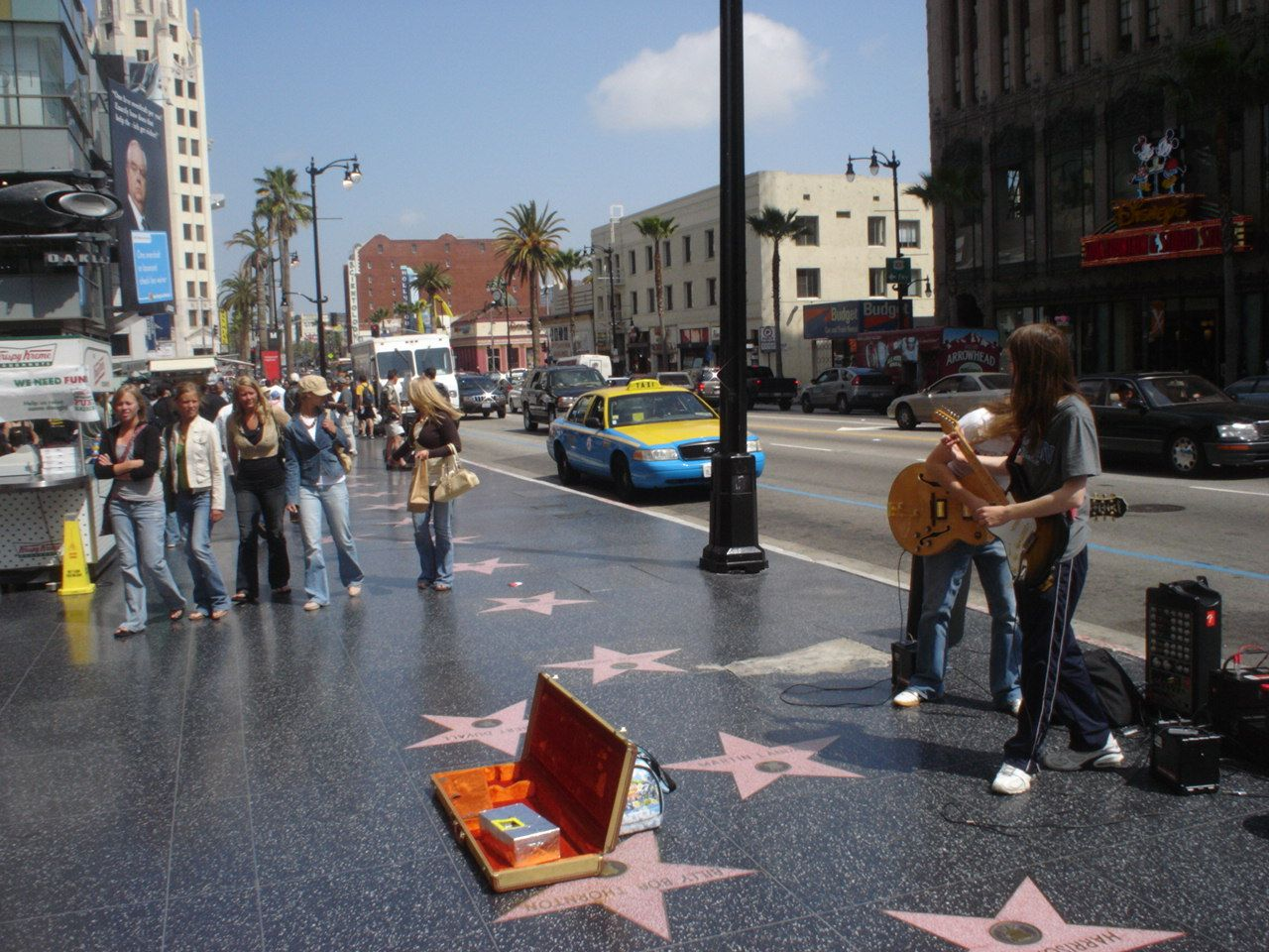 A band plays on the Hollywood Walk of Fame (6801 Hollywood Blvd), 21 April 2006.